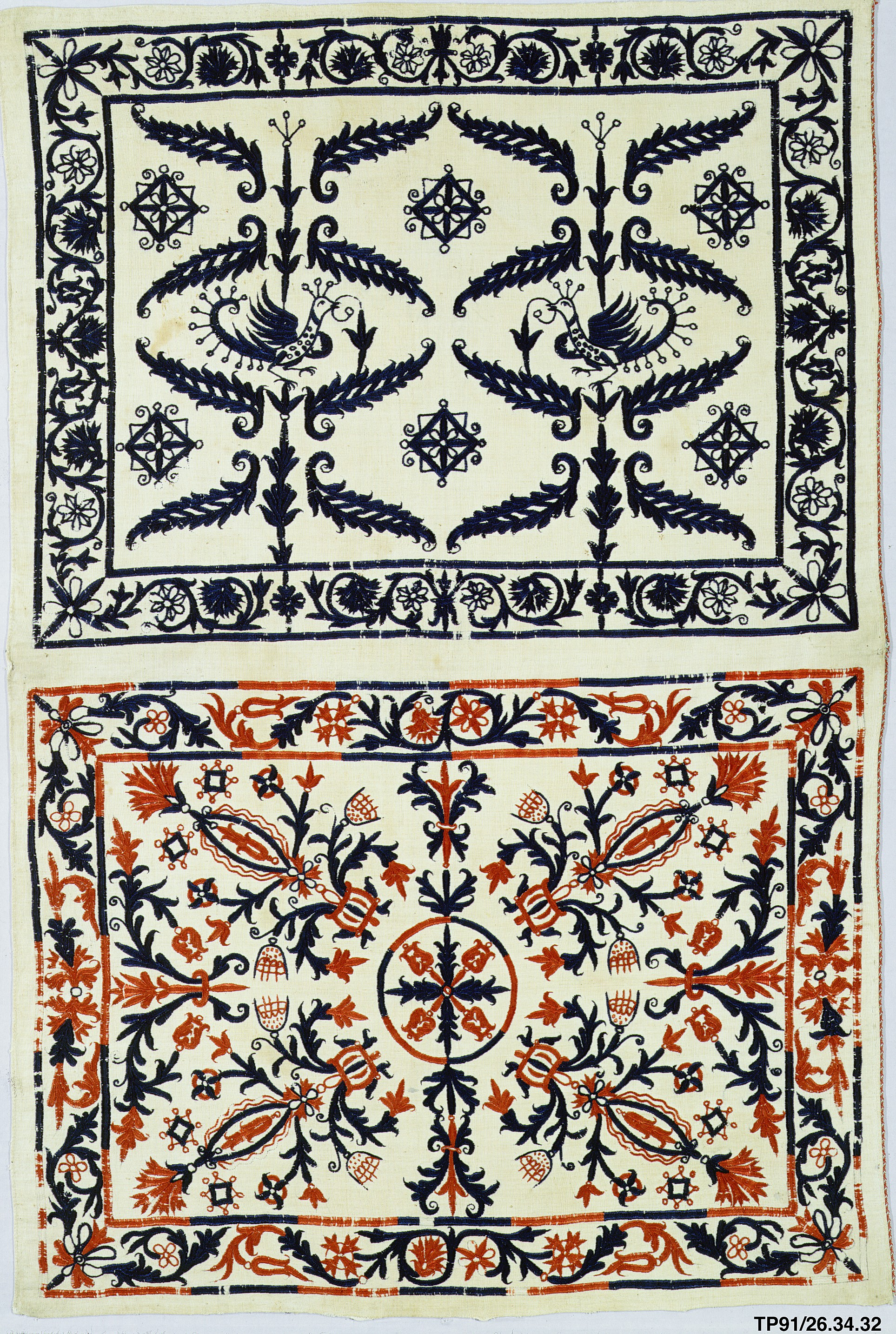 Greek Islands, Crete; Pillowcase; Textiles-Embroidered